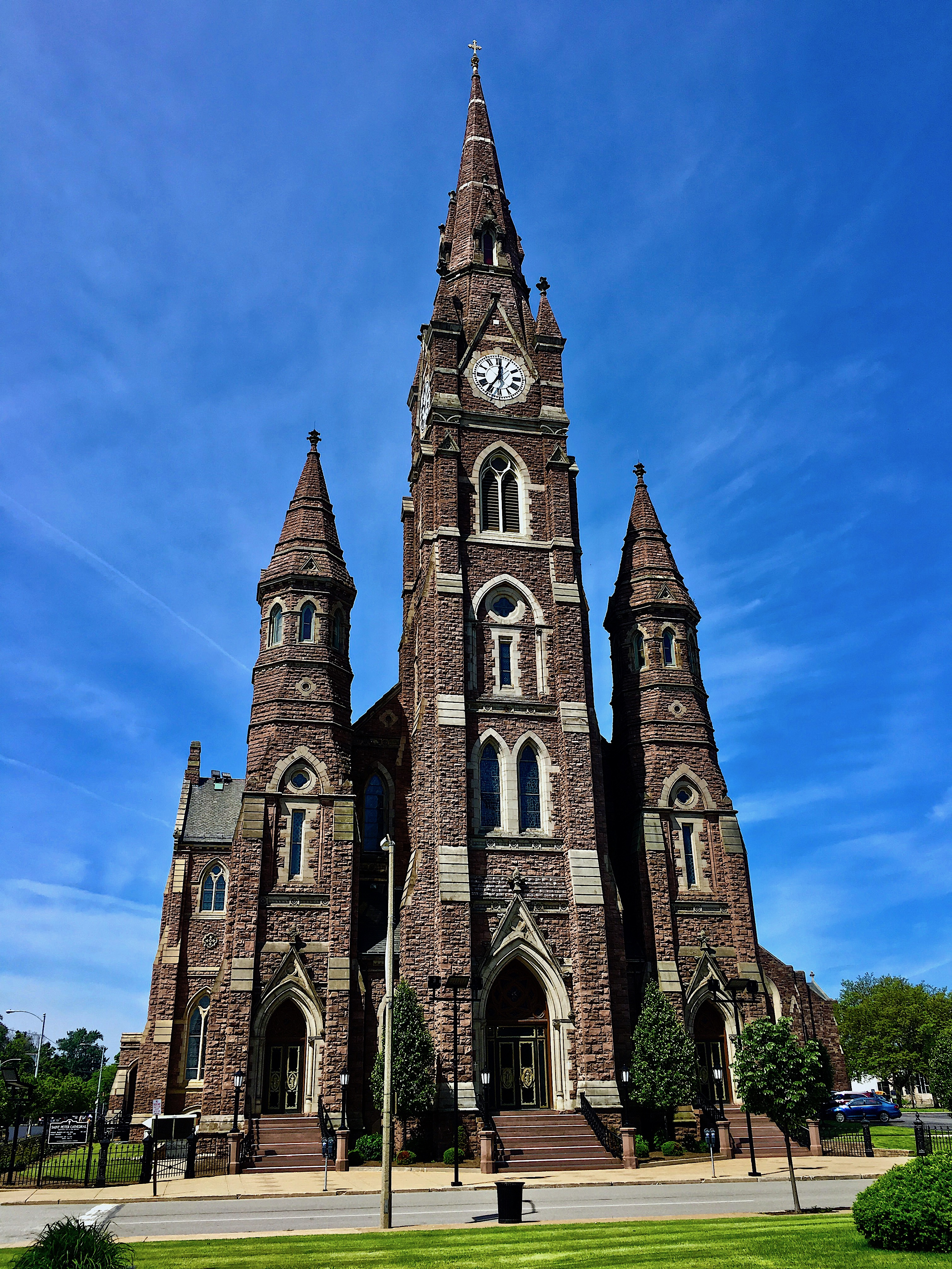 The main Catholic church of Erie, Pennsylvania.